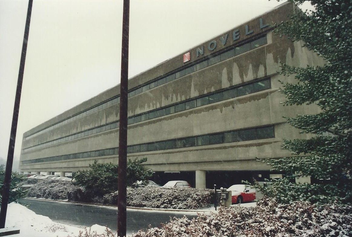 The Novell building in Summit, New Jersey, seen during a late winter snowfall in March 1994. This building housed Unix Systems Group, which had been Unix System Laboratories before being acquired by Novell. This place was subsequently occupied by Wells Fargo, although due to exterior remodeling looks somewhat different.